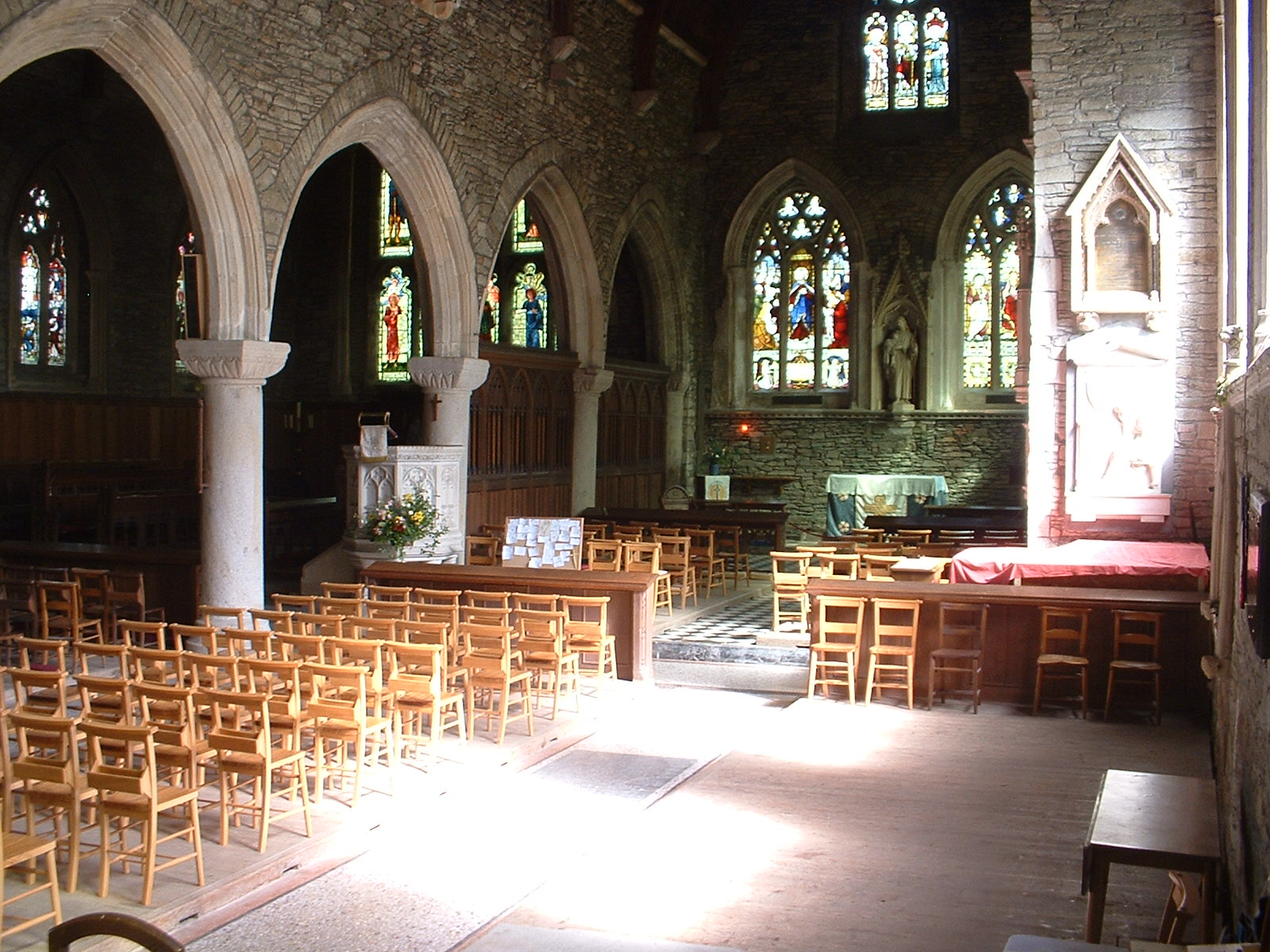 Interior of St German's Priory, Cornwall. Taken by Necrothesp, 19 April 2006.